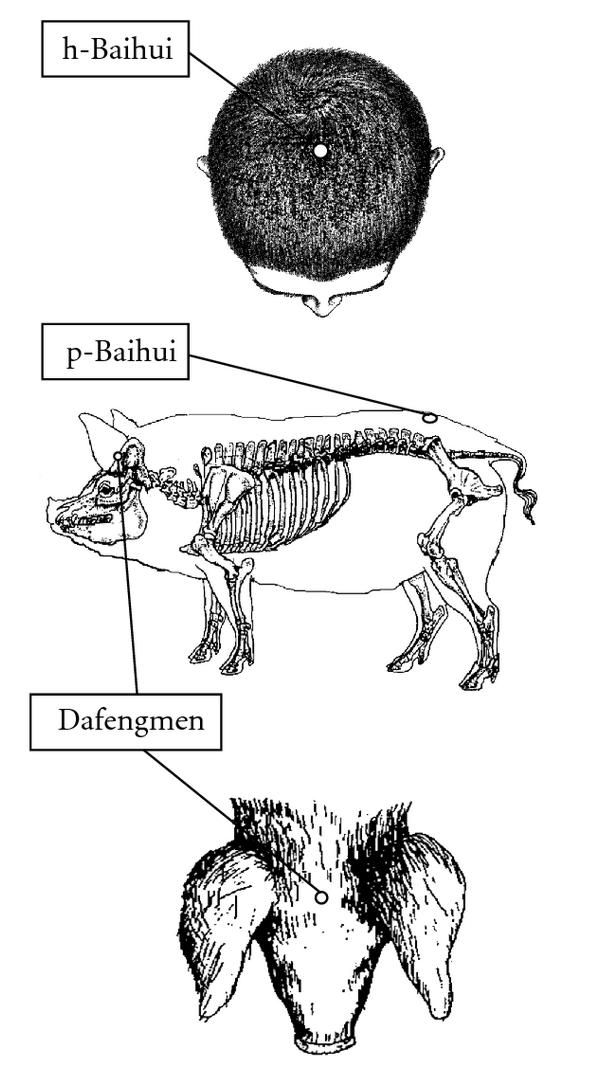 Acupoints for pigs used in the present study are shown in comparison with human acupoints. Human-Baihui (h-Baihui, GV20), the midpoint of a line connecting both ears, is an anatomically similar point to Dafengmen in pigs. Pig-Baihui (p-Baihui) is on top of the body, which designates the point of Baihui according to traditional Chinese medicine.